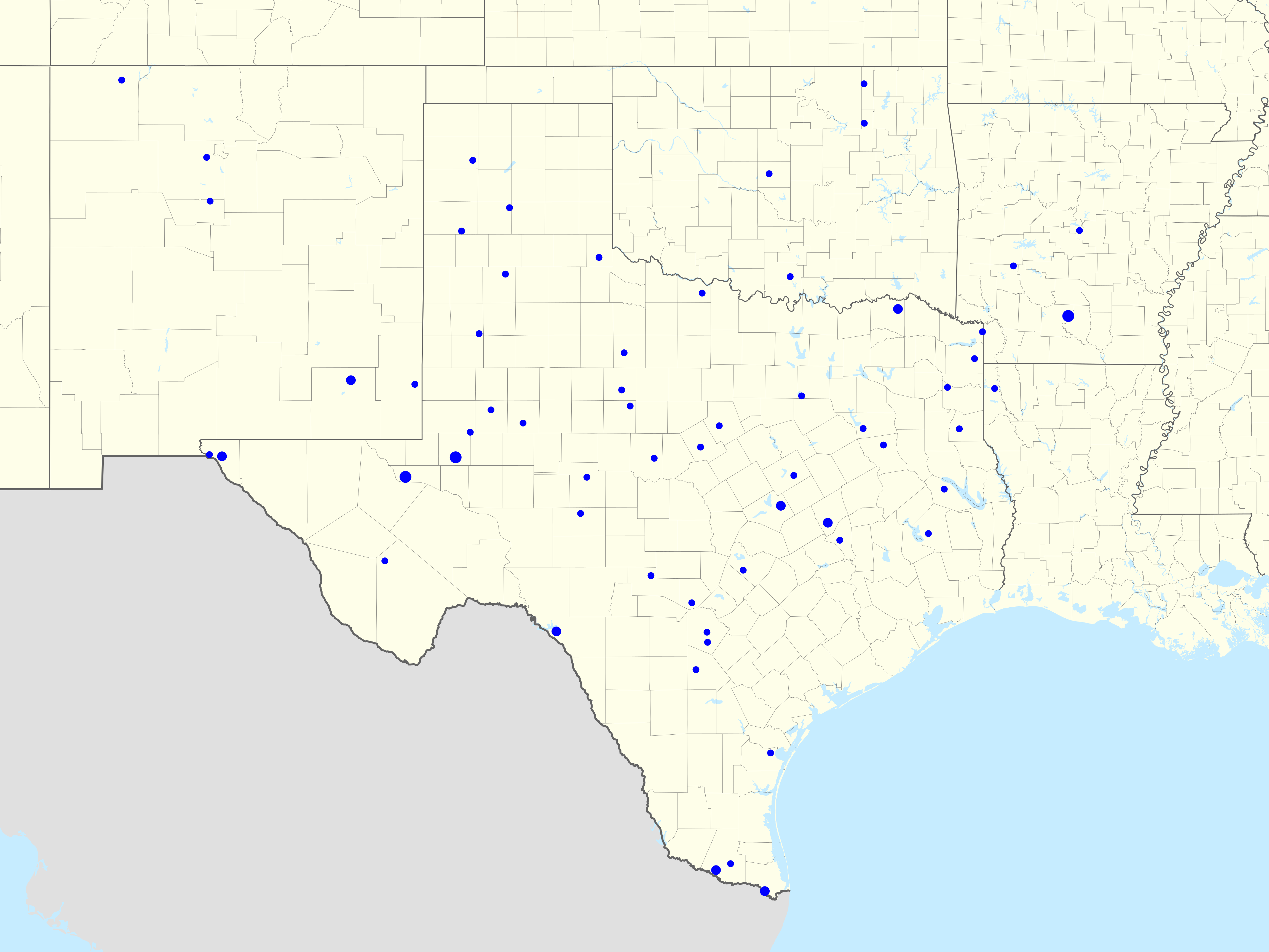 Map of affiliates in the Dallas Cowboys Radio Network. Locations are approximate.